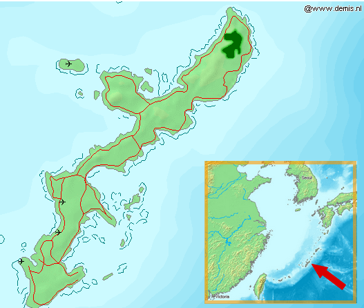 Range Map of Sapheopipo noguchii(Dendrocopos noguchii)